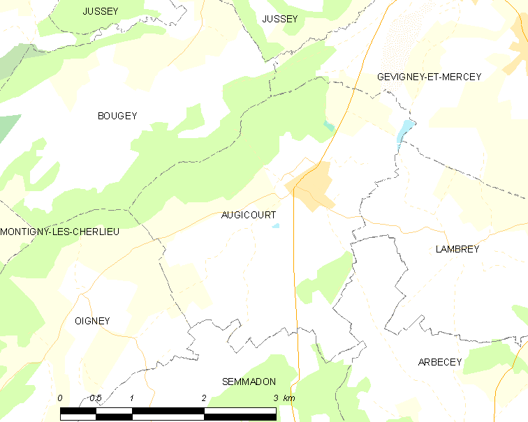 Map of French municipality